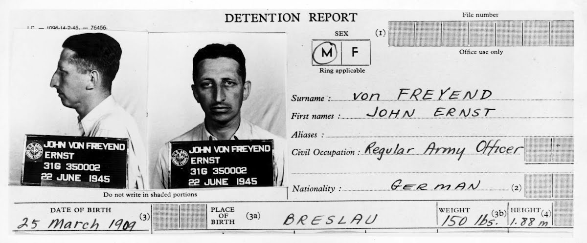 Detention report and Mugshots of Ernst John von Freyend